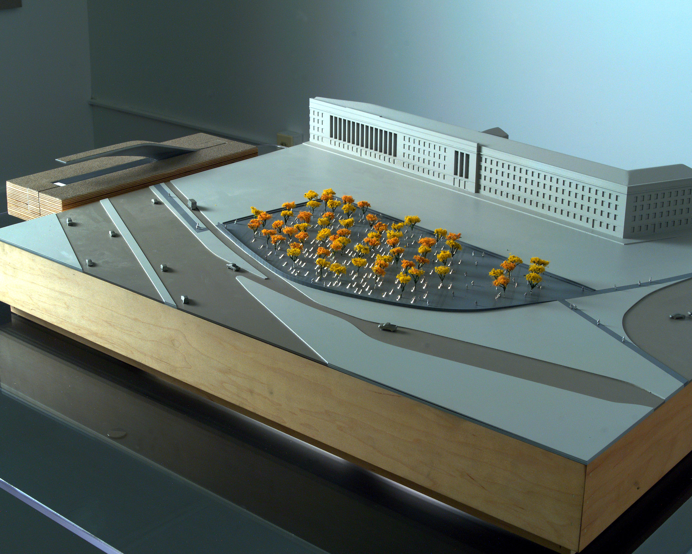 Terry Riley, chief curator of design and architecture at the New York Museum of Modern Art, announced the winning design of the Pentagon Memorial at a Pentagon press conference on March 3, 2003. The winning design is the so-called "Light Benches" submitted by Julie Beckman and Keith Kaseman of New York. The memorial will be built on a 1.93-acre plot on the Pentagon reservation near the spot where the attack occurred on the building. The memorial encompasses the entire memorial site and includes 184 benches with the name of each victim engraved into the face of the bench. The benches are to be comprised of cast, clear, anodized aluminum polyester composite matrix set on an eight-inch concrete pad for stabilization. Each bench will be positioned according to the age of the victim, progressing from the youngest, age 3, to the oldest, age 71. Each memorial bench will have a glowing light pool set underneath. The site also will have clusters of trees throughout to provide shading and a more intimate atmosphere. The estimated cost to build the memorial is between $4.9 million and $7.4 million. Taxpayer funds will not be used for the construction of this project.